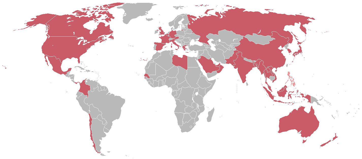 Presidential trips of Fidel V. Ramos (1992-1998).